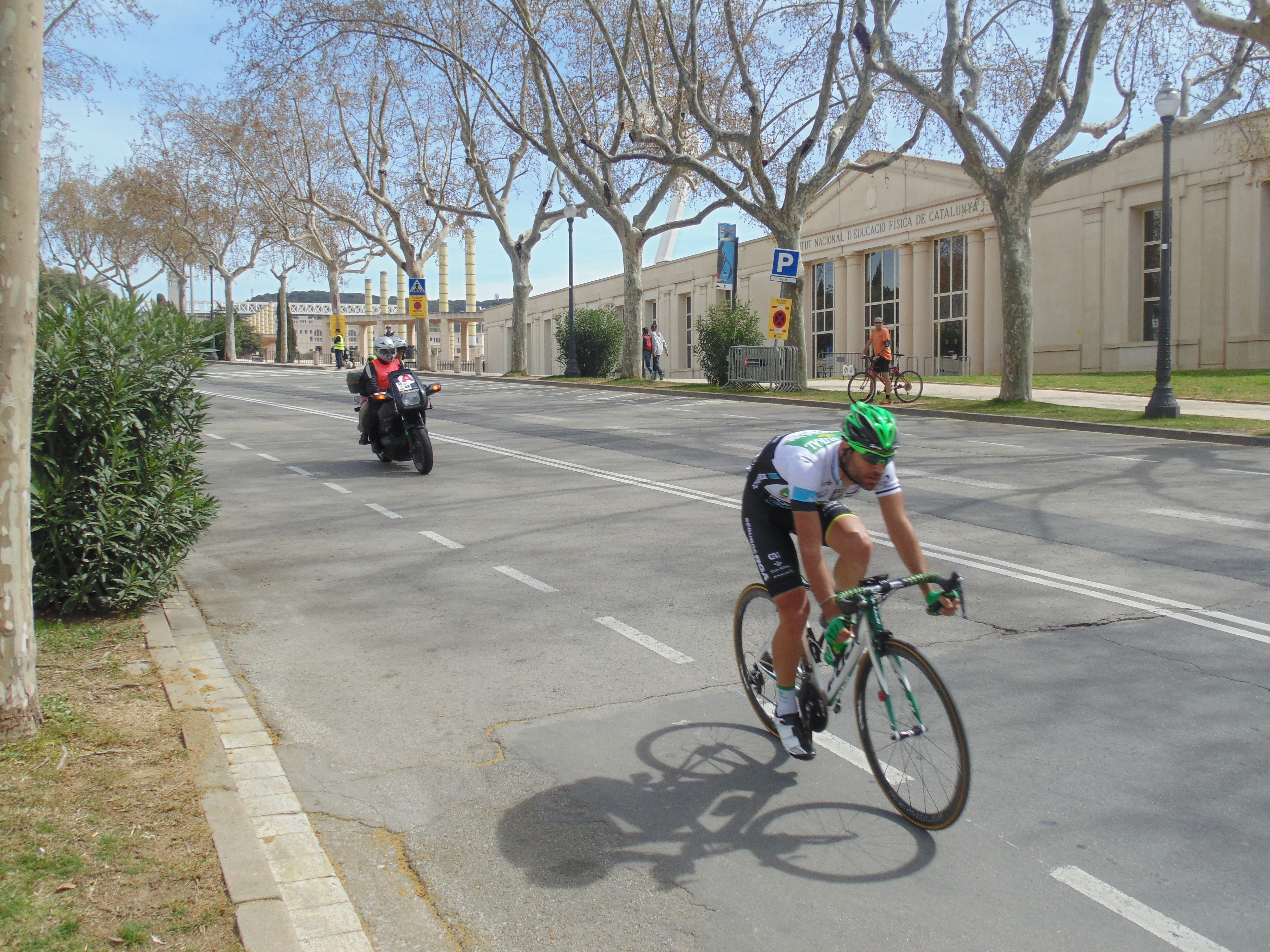 Lluís Mas Bonet during the closing stage of the 2015 Volta a Catalunya.